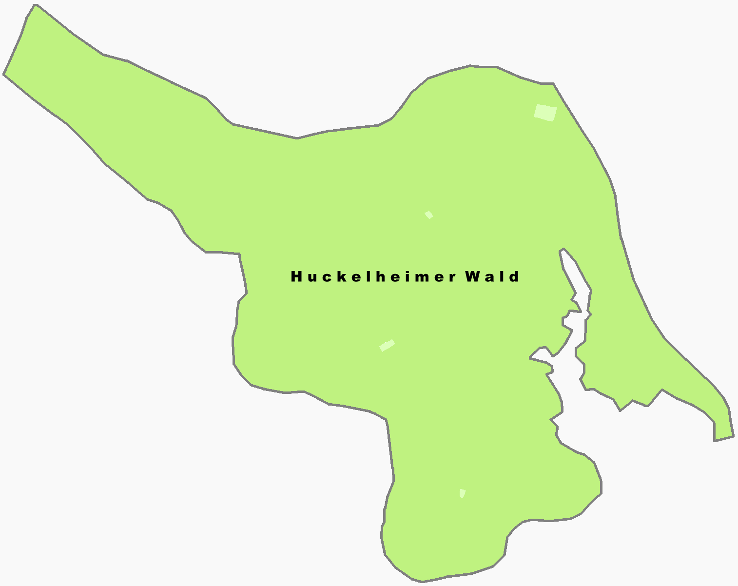 Unincorporated area Huckelheimer Wald with the (unincorporated) Gemarkung Huckelheim Grassland, Meadow Forest Municipal border